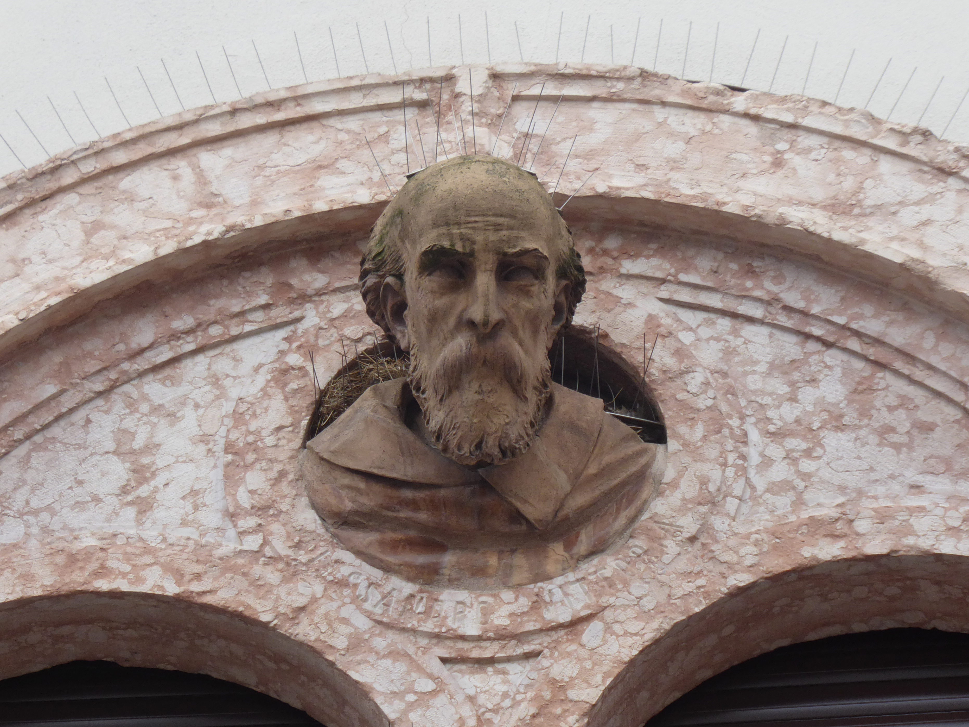 Bust of Alessandro Vittoria on the facade of Palazzo Ranzi, in Trento, by Andrea Malfatti